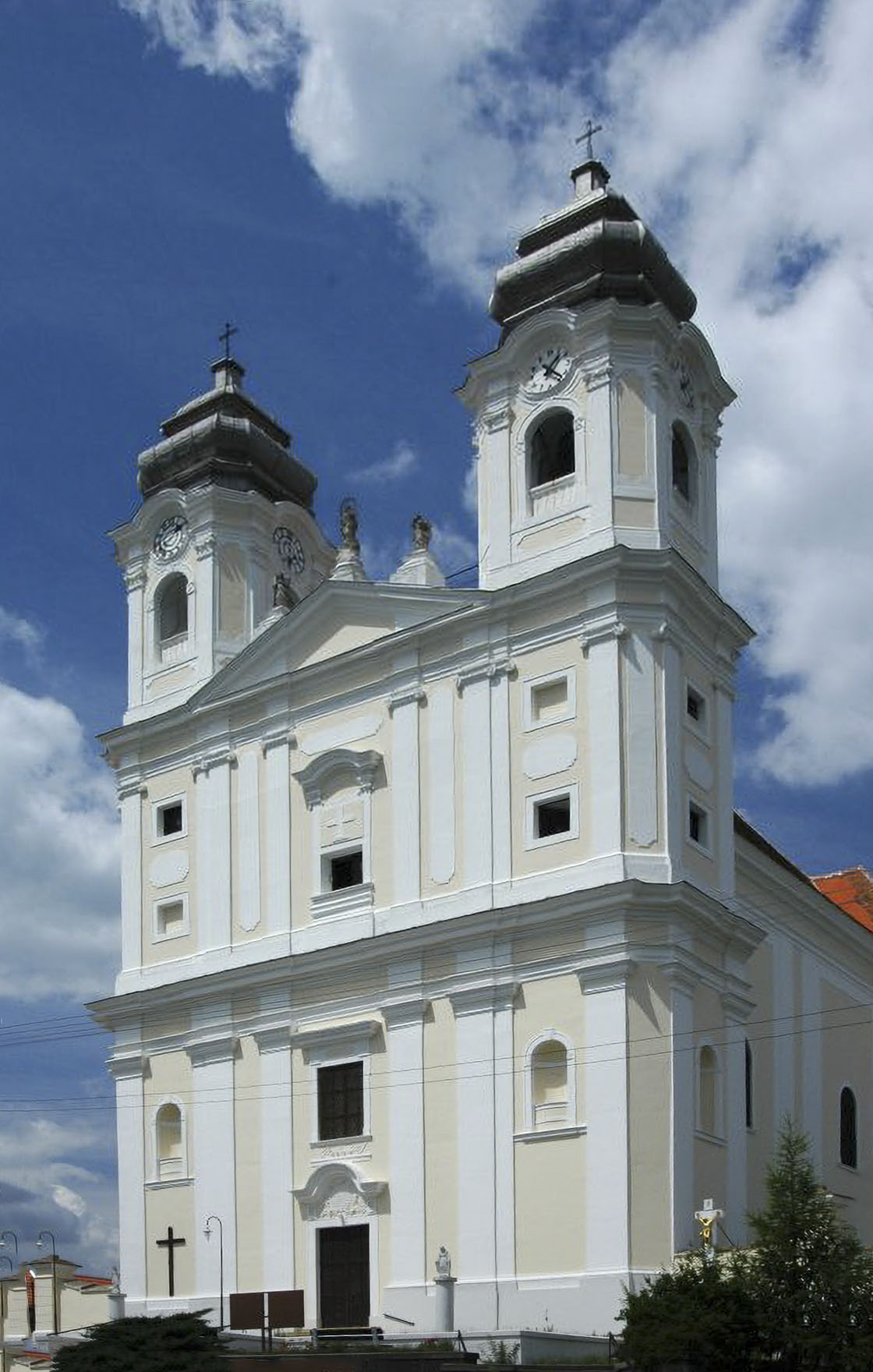 Church in Veľké Leváre (18 st.) Kostol vo Veľkých Levároch (18. storočie)